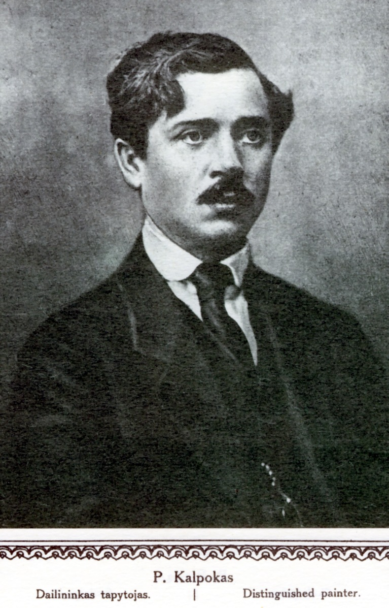 Petras Kalpokas, Lithuanian painter, professorLietuvių: Petras Kalpokas, Lietuvos dailininkas – tapytojas, profesorius